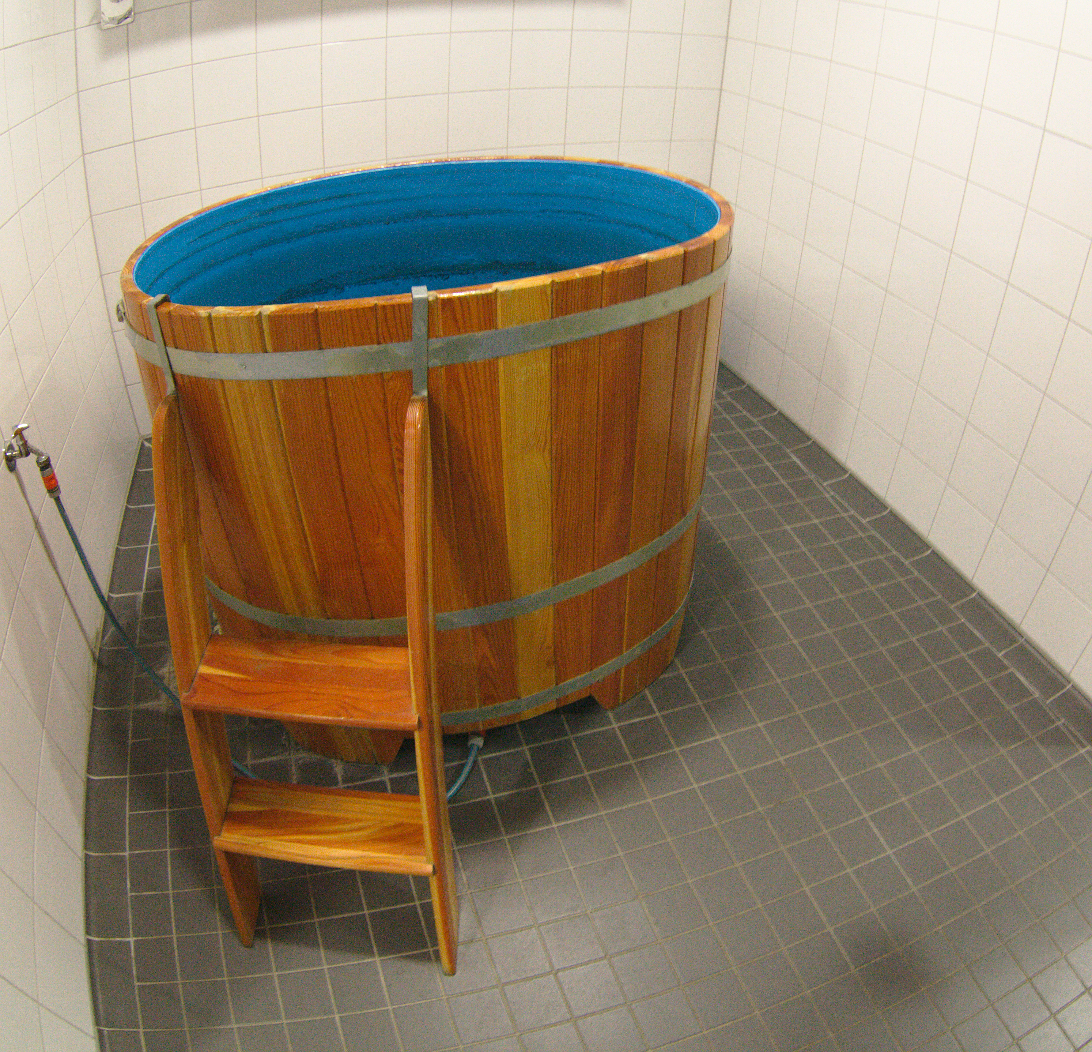 Bath tub for cooling down after sauna session, Bremen Weserstadion